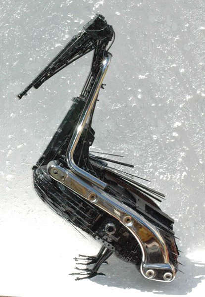 Contemporary sculpture of Mathias Durand-Reynaldo (born in 1975 sculptor from France).